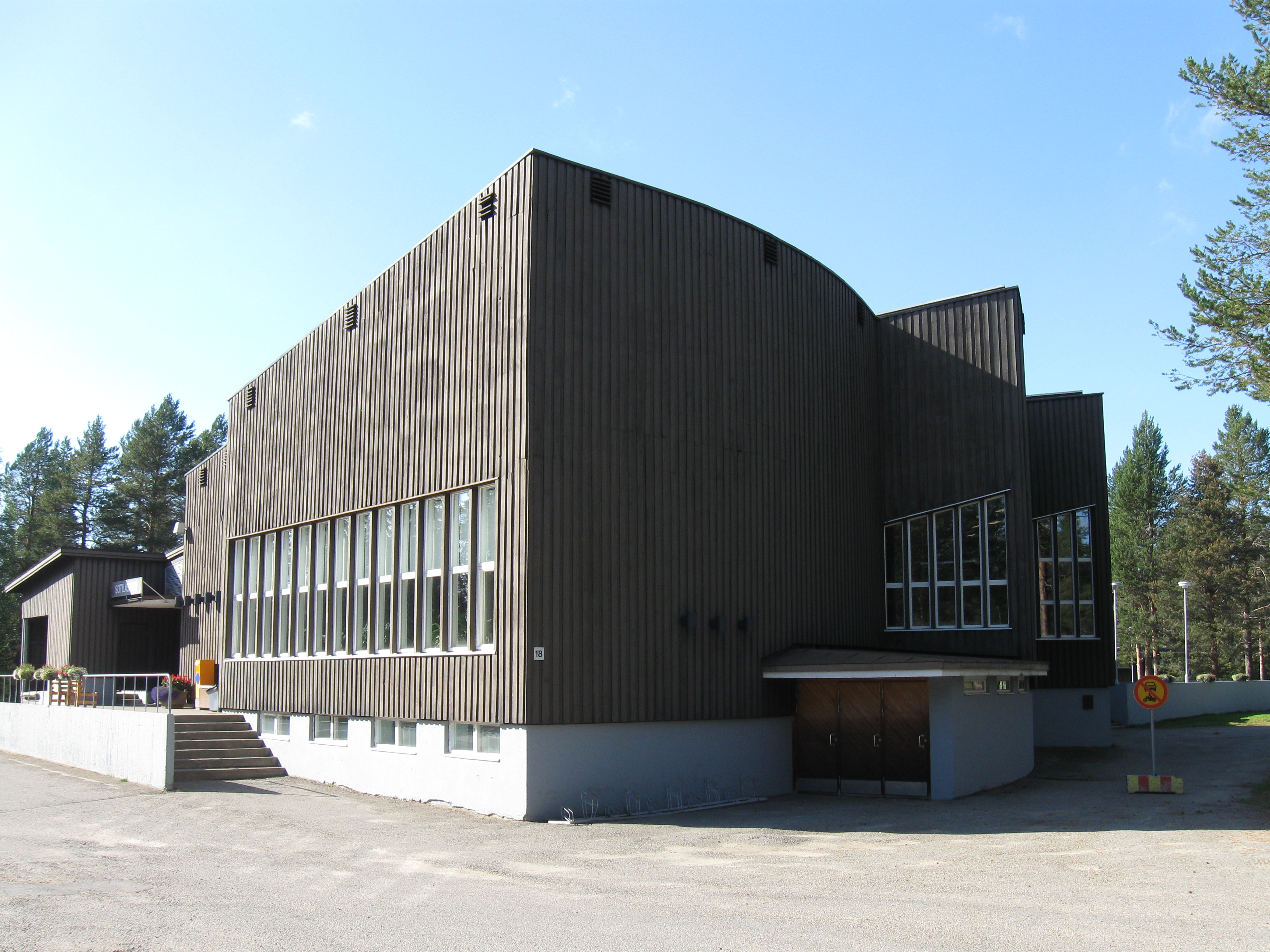 The military canteen of the jaeger brigade in Sodankylä, Finland.